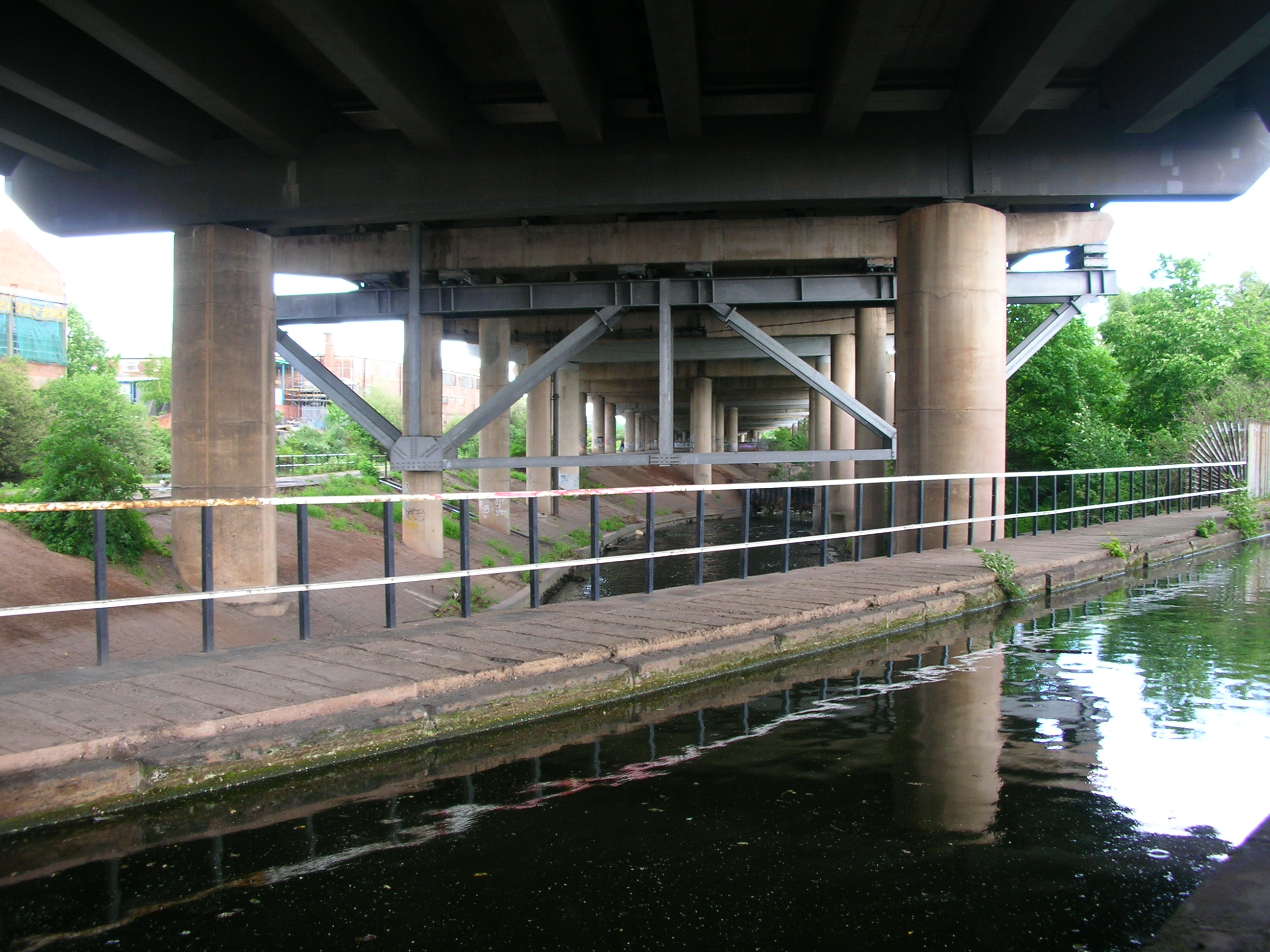 The Grand Union Canal (foreground) at Salford Junction (to the left, out of photograph), Birmingham, England. The M6 Motorway above and the River Tame below. The railings of the Birmingham and Fazeley Canal to Fazeley can be seen to the right of the left-hand pillar. Photographed by me 12 May 2007. Oosoom